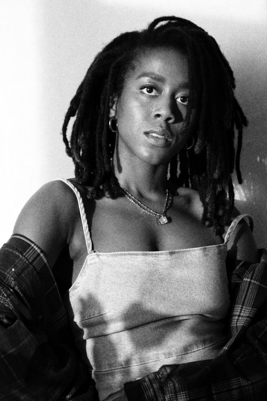 Tomi Adeyemi 2020